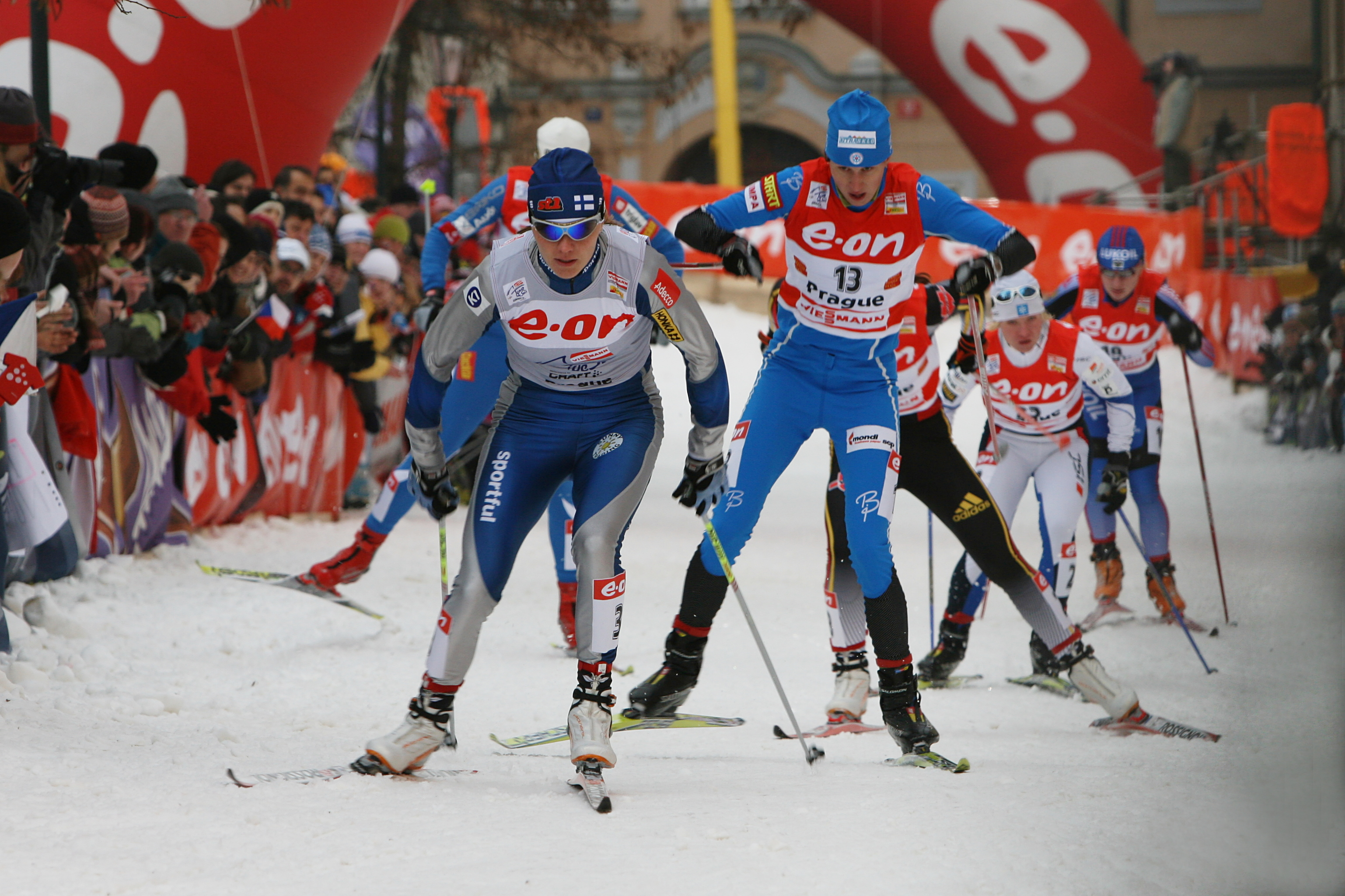 Virpi Kuitunen (numberless) leading the group in the quaterfinals of Tour de Ski in Prague